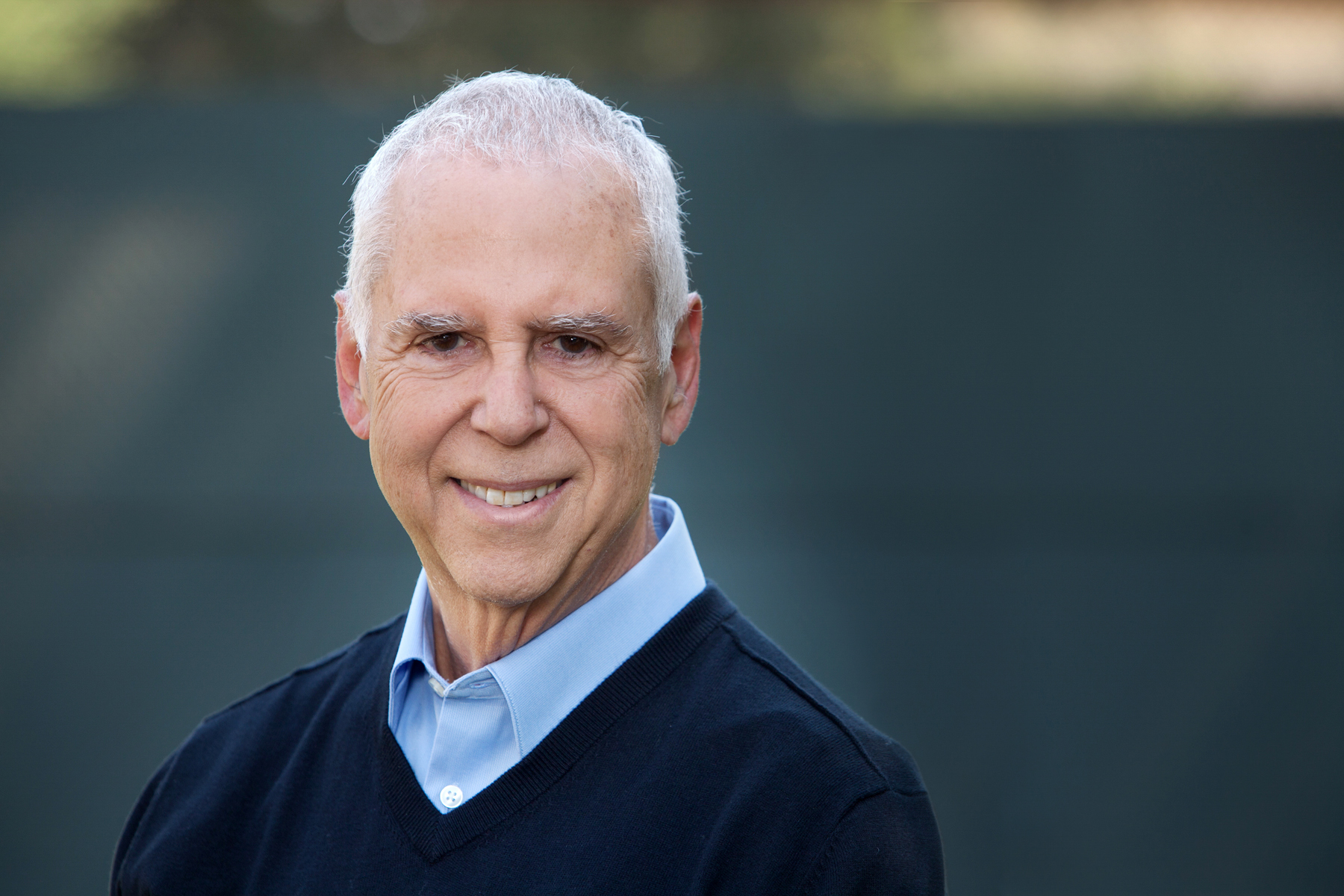 This is a photograph of Mark Leslie